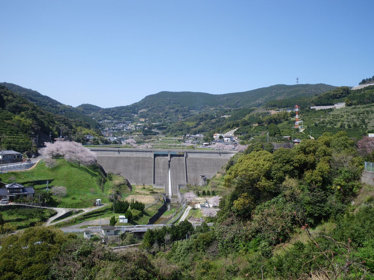 Nagayodam and Mt.Kotonoo.Nagayo town,Nagasaki